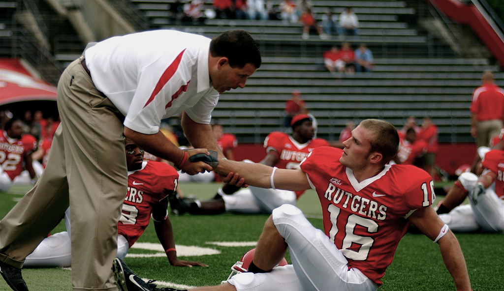 Rutgers University (en) head American football coach Greg Schiano (en) greets wide receiver Kyle Murphy during pregame warmups before Rutgers' game against Howard University.